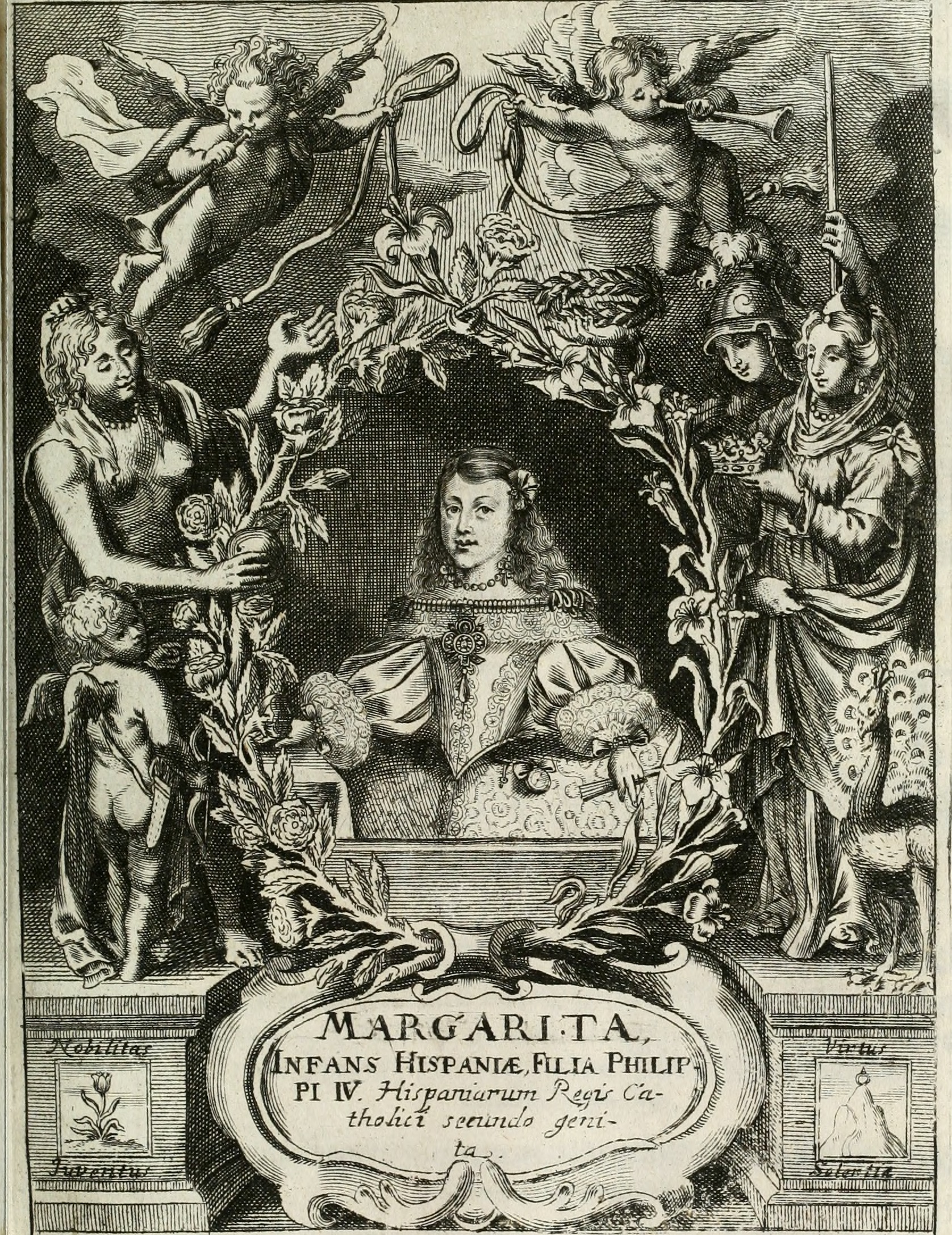 Title: (Publications relating to the wedding of Leopold I, Holy Roman Emperor, and Margarita Teresa, Infanta of Spain) Year: 1666 (1660s) Authors: Bertali, Antonio, 1605-1669 Bouttats, Gerard, b. ca. 1630 Carducci, Alessandro Fitzing, Johann Heinrich, b. 1628. Epithalamisches Emblema Fürst, Paul, ca. 1605-1666 Hoey, Nicolas de Hoffman, Johann, 17th cent Küsel, Melchior, 1626-1683 Lang, Moritz, 17th cent Lerch, Johann Martin, fl. 1659-1684 Luin, Urban, 17th cent Ossenbeeck, Jan van, 1624?-1674 Pasetti, Carlo, fl. 1639-1695 Sbarra, Francesco, 17th cent. Contesa dell' aria e dell' acqua. German Schmelzer, Johann Heinrich, ca. 1623-1680. Arie per il balletto à cavallo Steen, Franciscus van der, 1625-1672 Subjects: Leopold I, Holy Roman Emperor, 1640-1705 Margarita Teresa, Infanta of Spain, Empress, consort of Leopold I, Holy Roman Emperor, 1651-1673 Royal weddings Horse ballet Horse processions Tournaments Fireworks Publisher: Text Appearing Before Image: UJTheGetty foCdout/mapnot cfigitizecf Text Appearing After Image: LM^-ùt^irr- cjtí